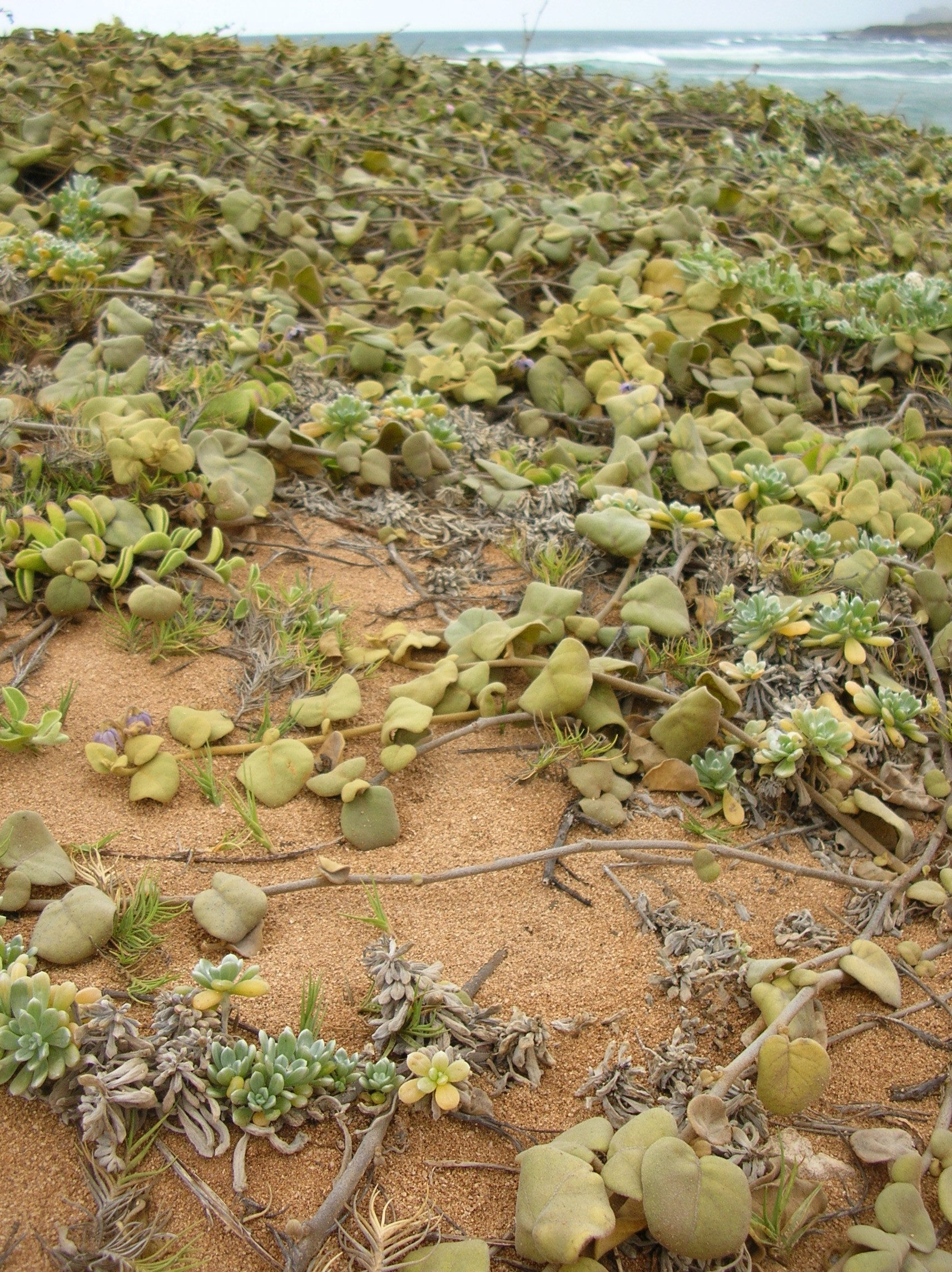 Solanum nelsonii (habit). Location: Molokai, Moomomi